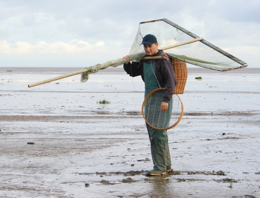 Traditional shrimper from the village of Banks, Lancashire.